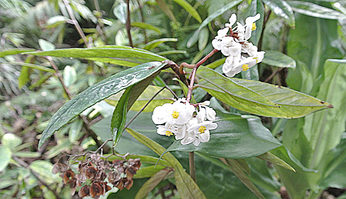 Native to Atlantic Brazil. Lotusland, Montecito, California.